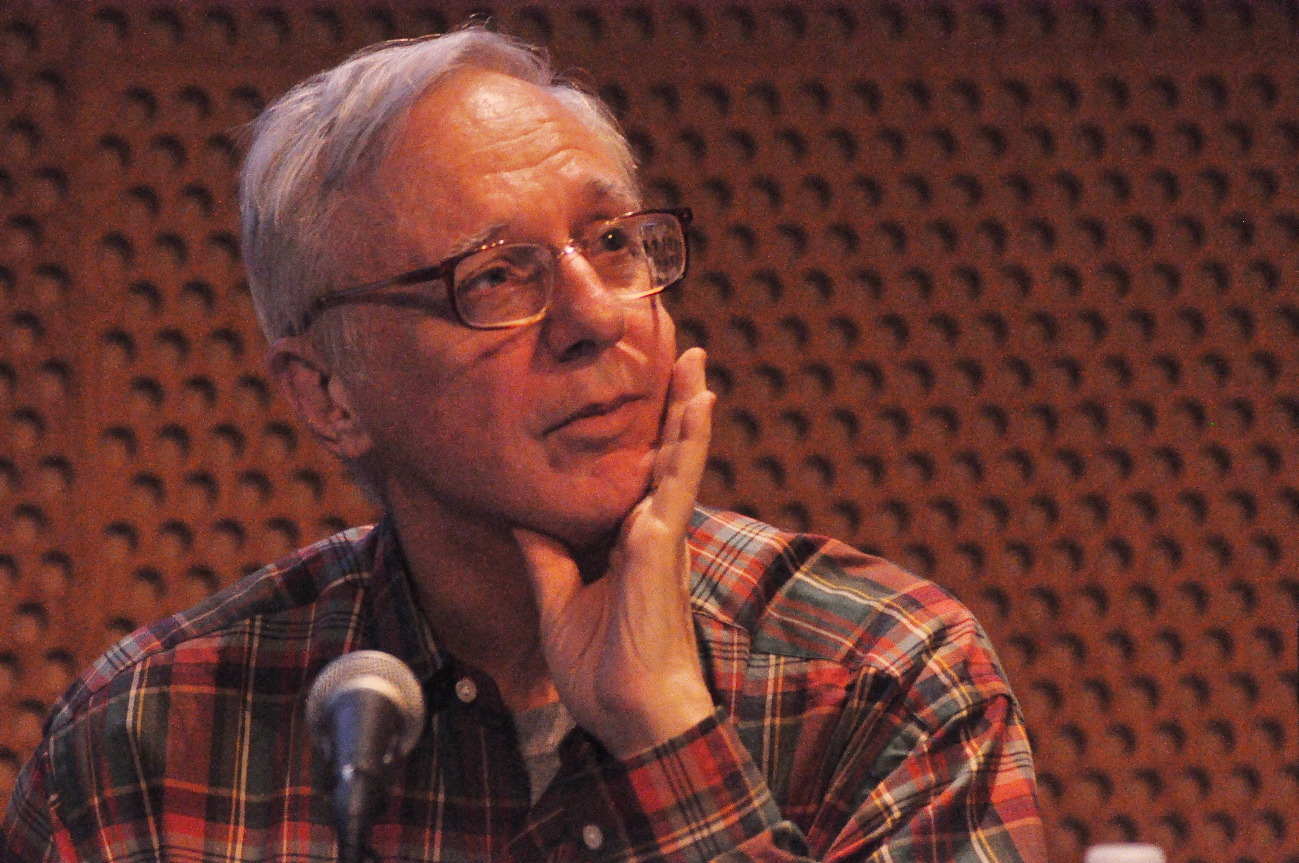 Robert Christgau on the "Music in the '00s" panel, 2010 Pop Conference, EMPSFM, Seattle, Washington.